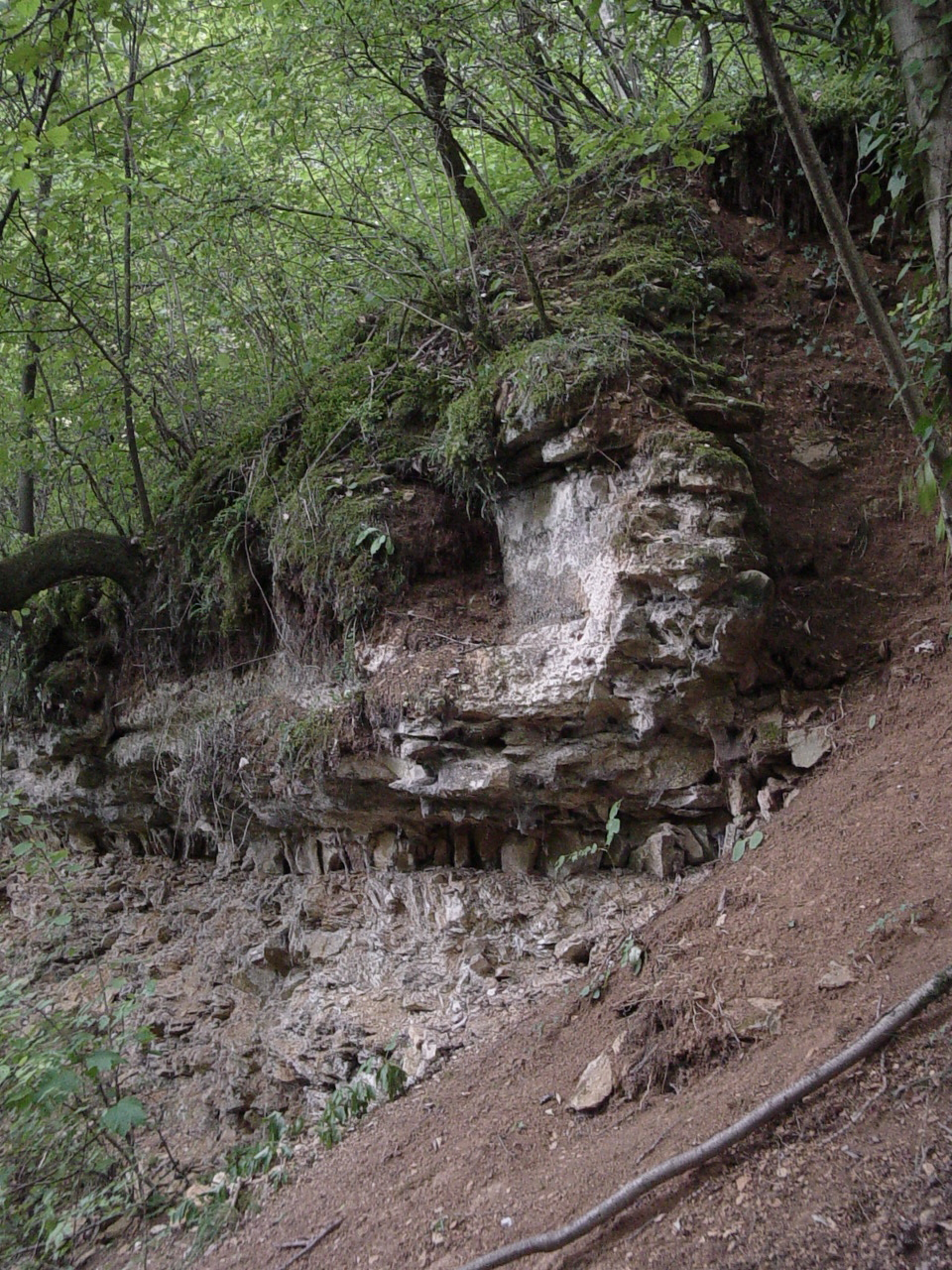 Roman aqueduc at Couzon-au-Mont-d'Or (Rhône, France)